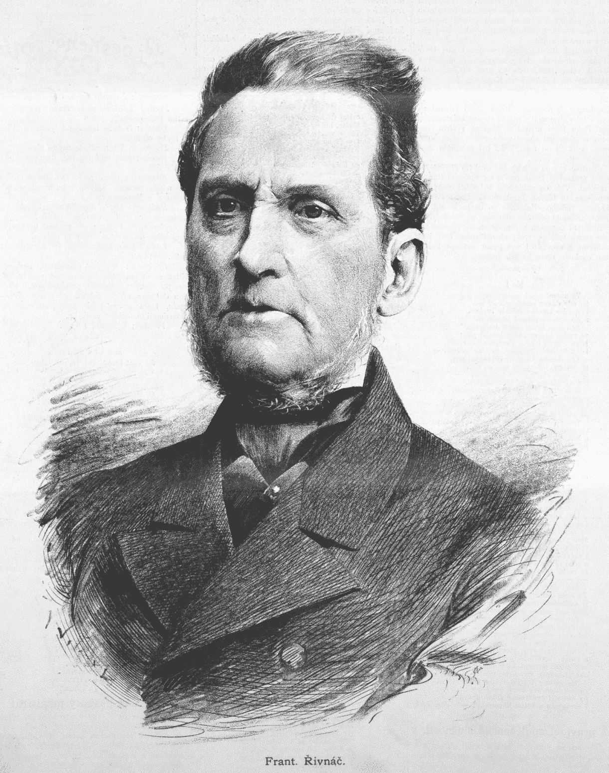 Portrait of František Řivnáč (1807 - 1888), Czech bookseller, editor and author of a popular guidebook on Bohemia.